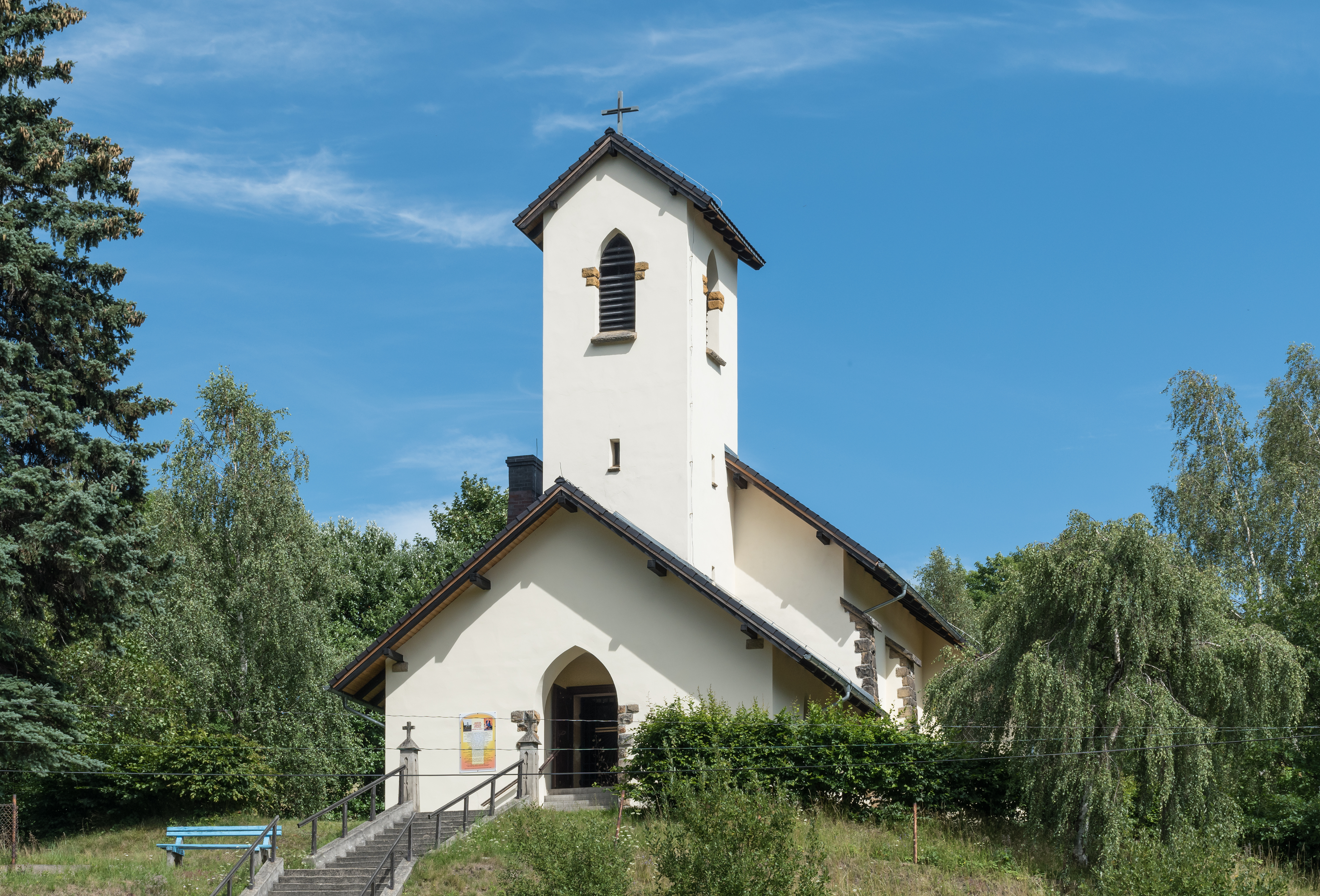 Church of the Assumption in Jedlina-Zdrój